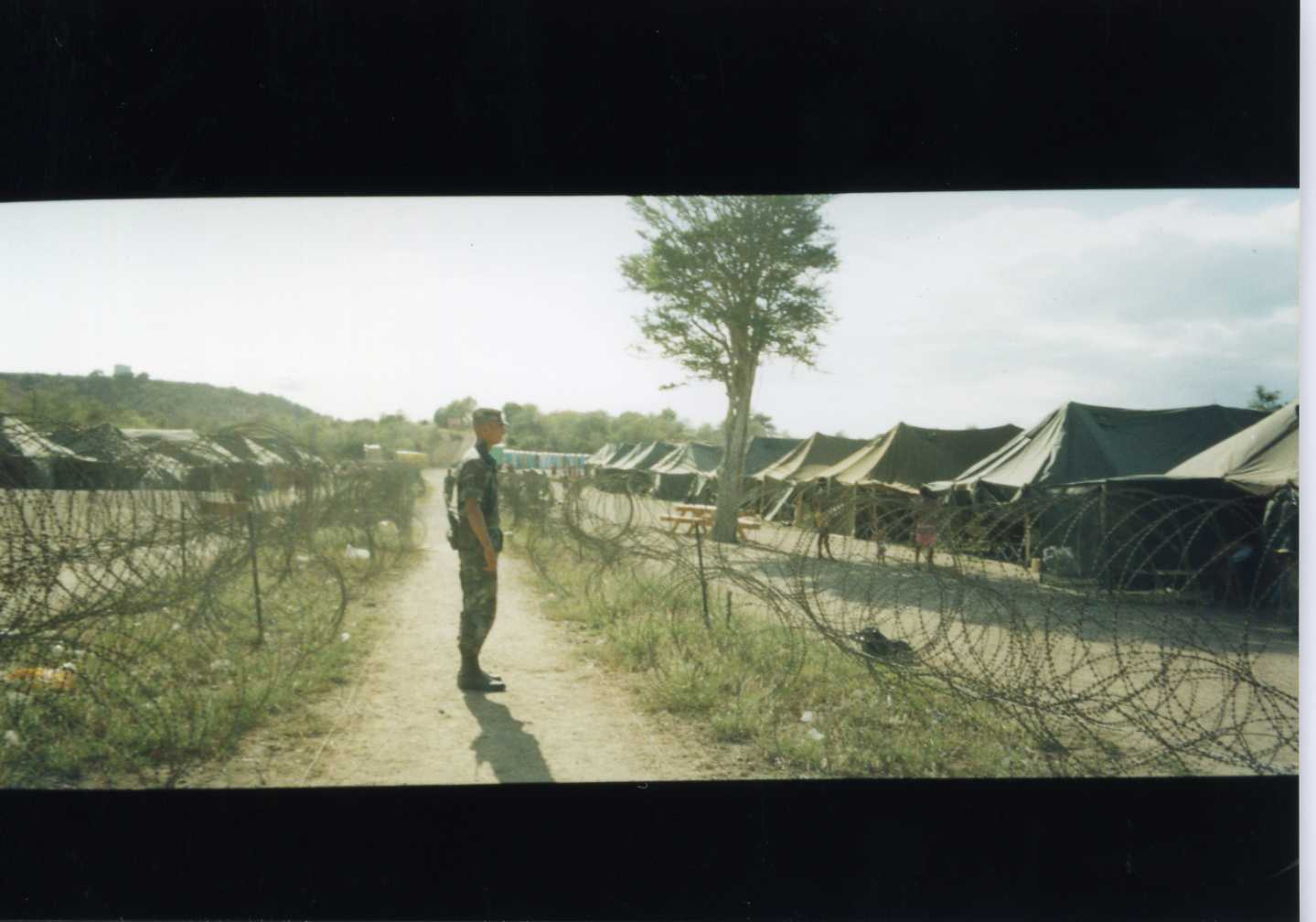 Gitmo Patrol Guard PFC. Pete Sutherland